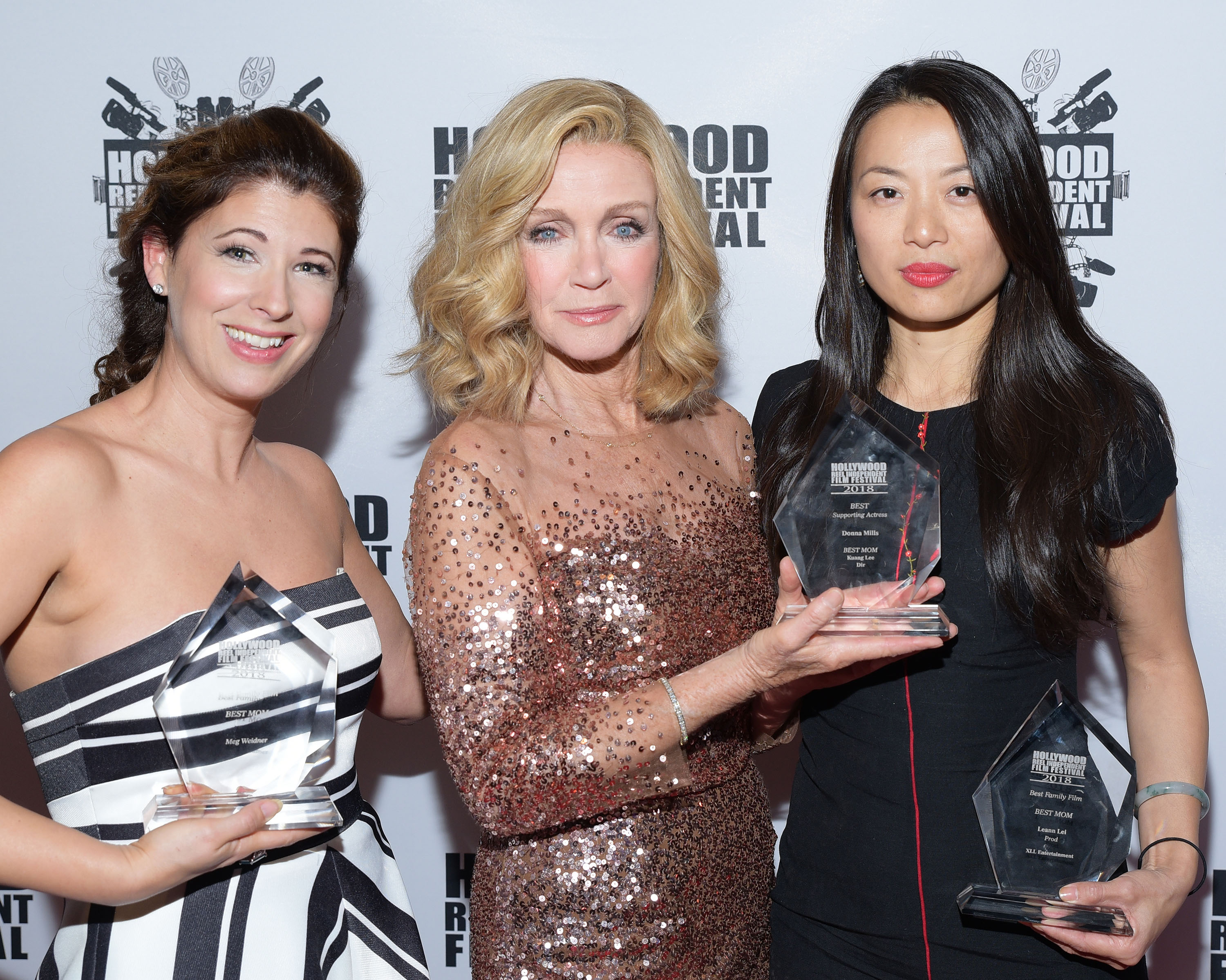 Hollywood Reel Independent Film Festival winners holding their trophies